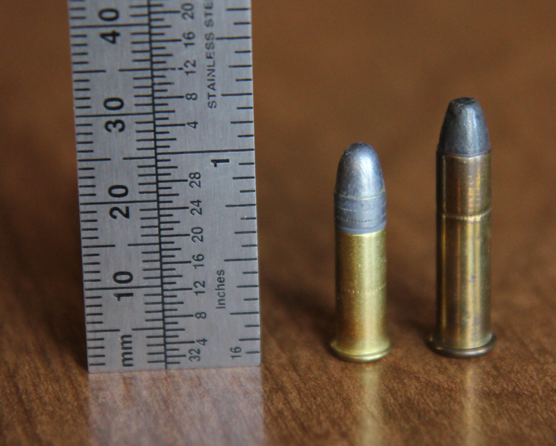 A .22 Special cartridge next to a metric/imperial ruler with a.22 Long Rifle cartridge for comparison.